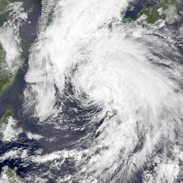 Tropical Storm Linfa on May 30, 2003. At the time Linfa had winds of 54.7 knts (63 mph, 101.4 kph), 1-min sustained, and a pressure of 984 mbar. This image was taken by the NOAA-16 Satellite.